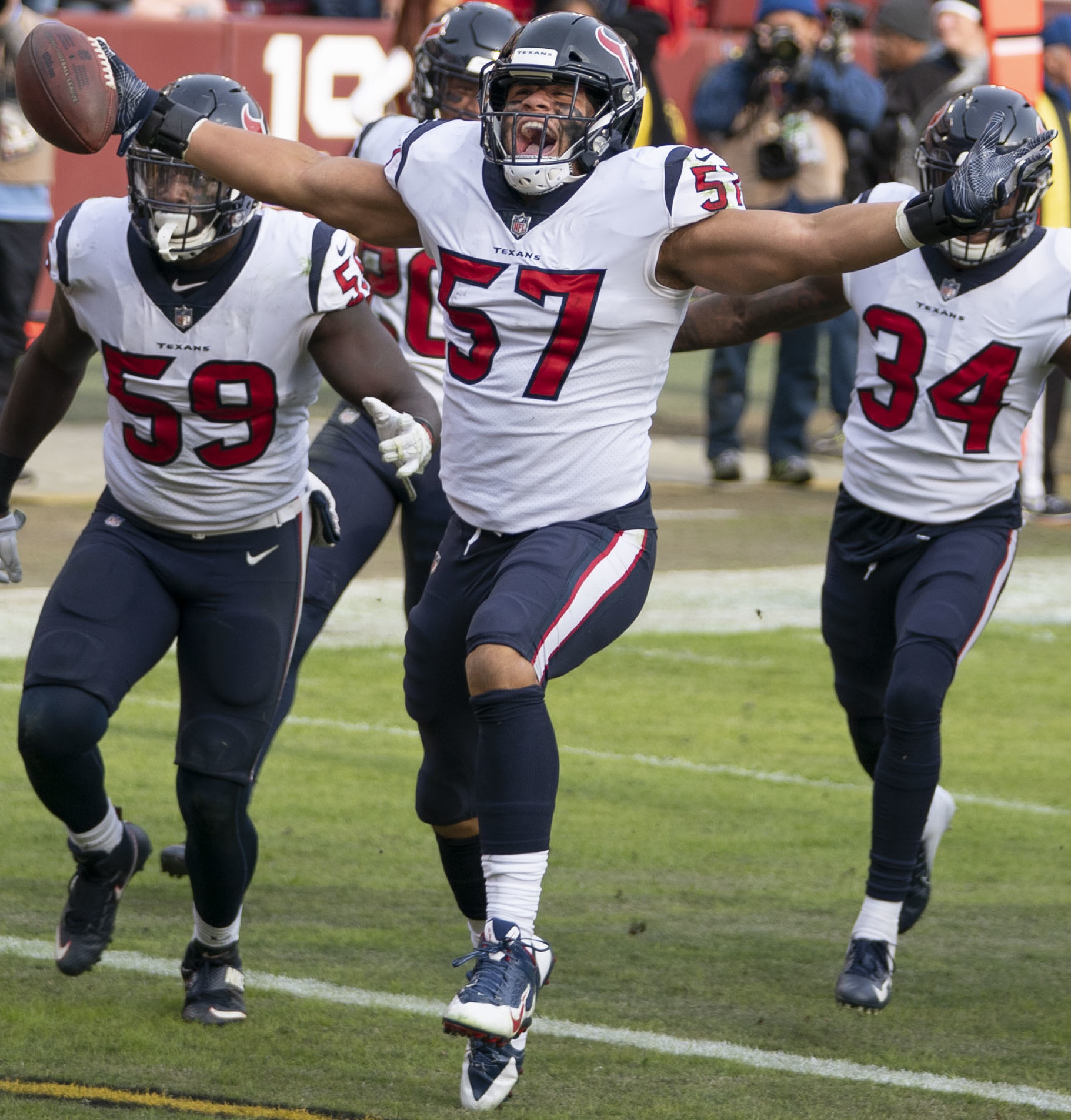 Brennan Scarlett of the Houston Texans celebrates with teammates after intercepting a pass in a game against the Washington Redskins at FedExField on November 18, 2018 in Landover, Maryland.